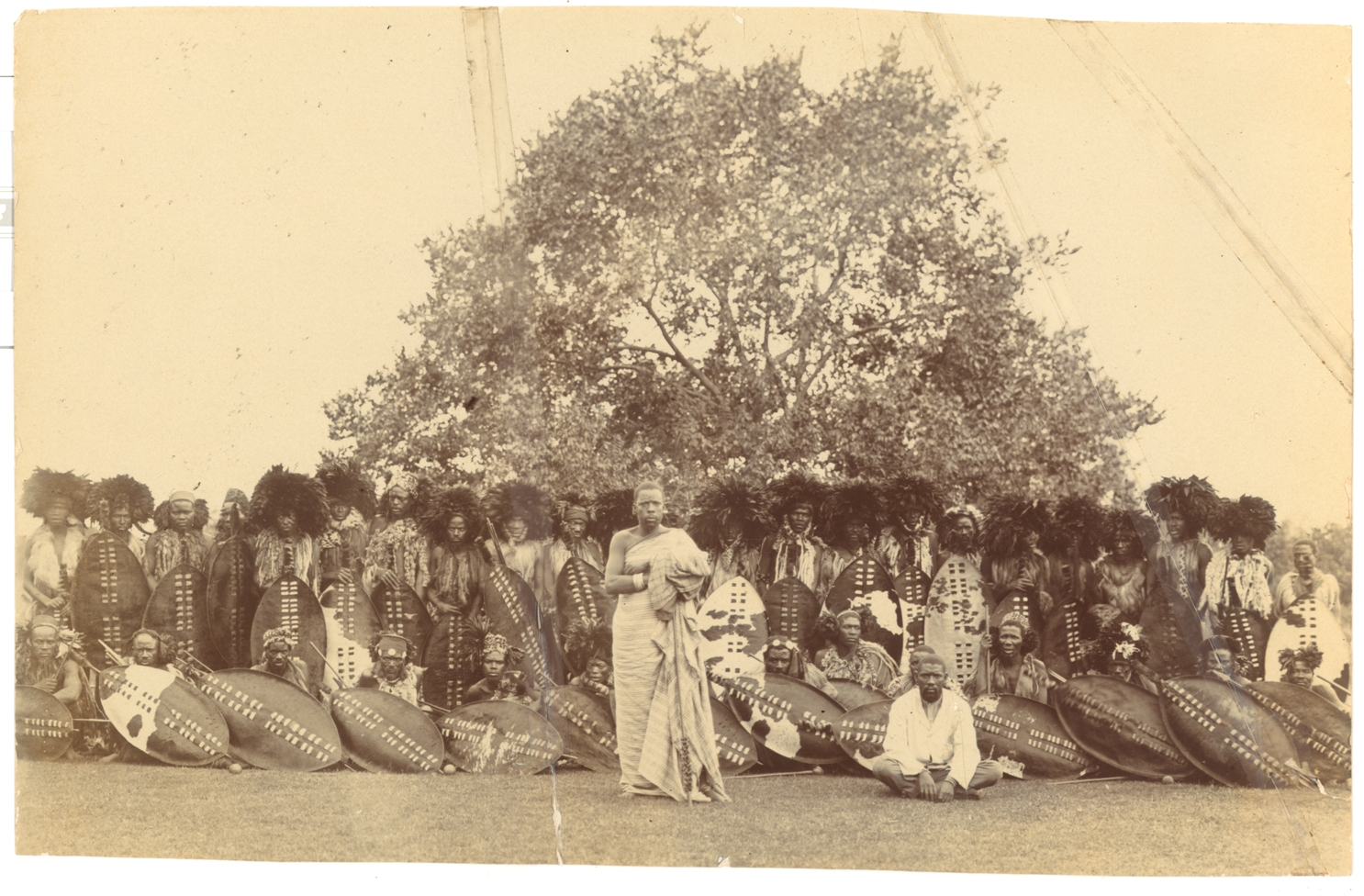 Troop of Angoni Dancers who came to the Coronation festivities of King George V at Zomba, 1911